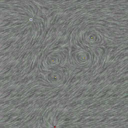 Line integral convolution (LIC) visualization of a vector field defined by a number of vortices and sinks. Generated using Jarke J. van Wijk's image based flow tool